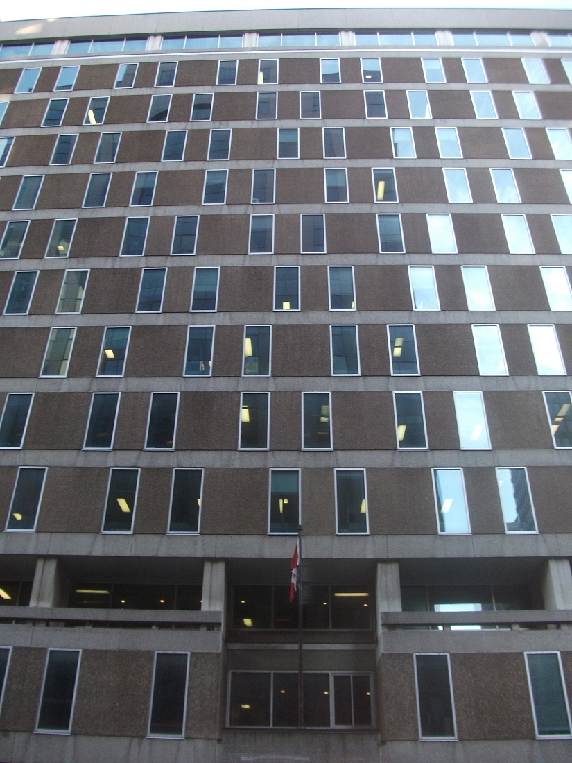 Head office of the Correctional Service of Canada - 340 Laurier Avenue West, Ottawa